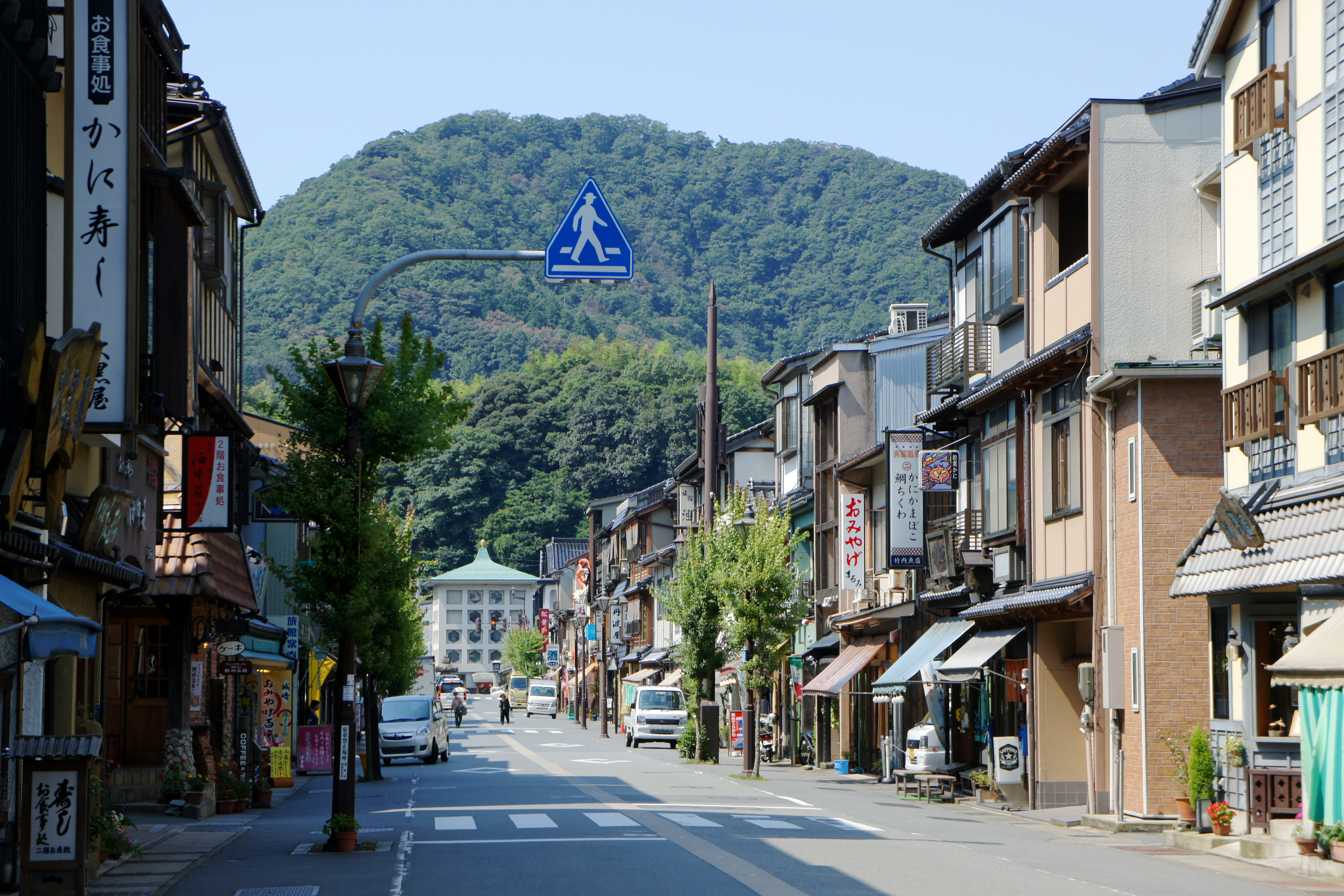 Kinosaki Onsen, Toyooka, Hyogo prefecture, Japan